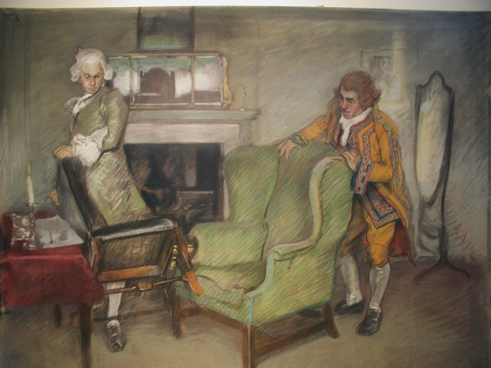 Bob Acres and His Servant, illustration for Richard Brinsley Sheridan's "The Rivals".